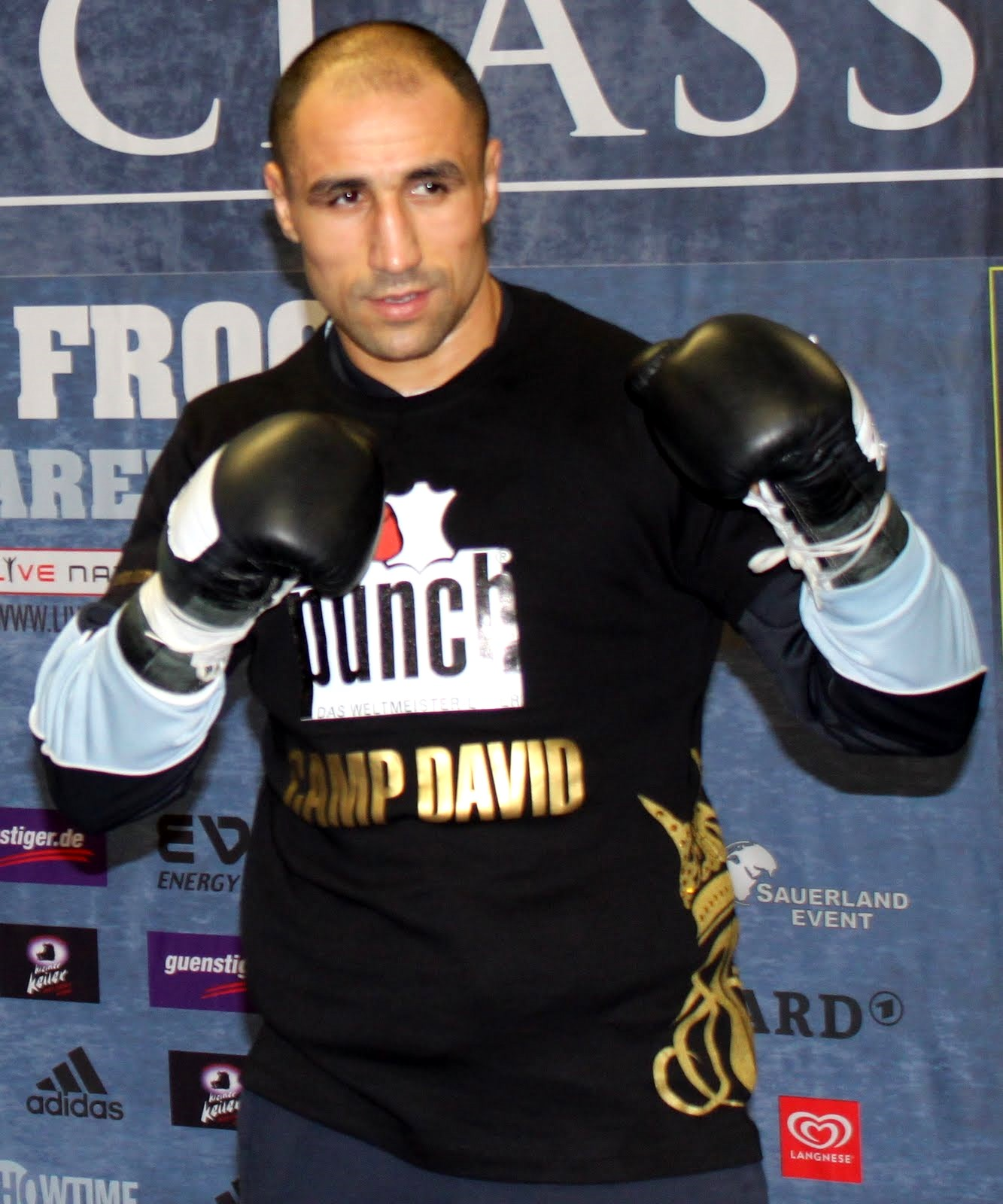 An Armenian-German boxer, Arthur Abraham, during his open media workout.